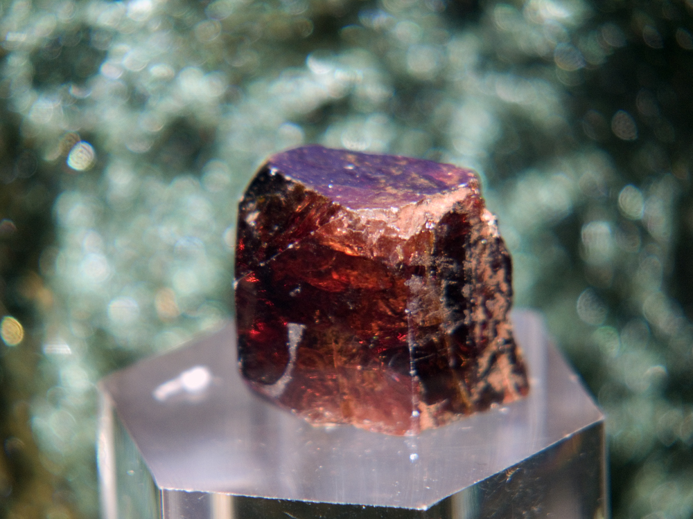 Zirkon